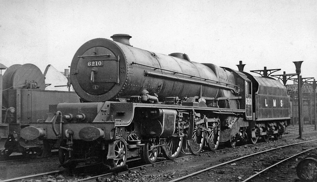 A resplendent Stanier 'Princess Royal' 8P 4-6-2 at Crewe North Locomotive Depot. Only five months after Nationalisation, No. 6210 'Lady Patricia' is still in LMS livery. (Lady Patricia was the daughter of Prince Arthur of Connaught, third son of Queen Victoria; she gave up her title as Princess when she married a commoner).